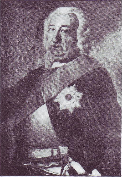 Contemporary Portrait of Prussian General Peter Ludwig du Moulin (1681-1756)